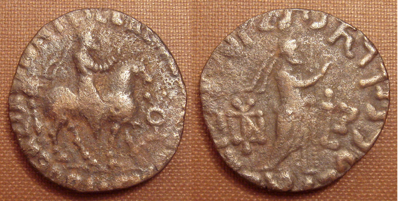 Two coins of the Indo-Parthian king Abdagases on horse. 1st century. Personal photograph 2006.